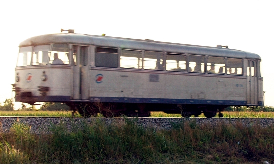 ЖС 812 at Budanovci 2012